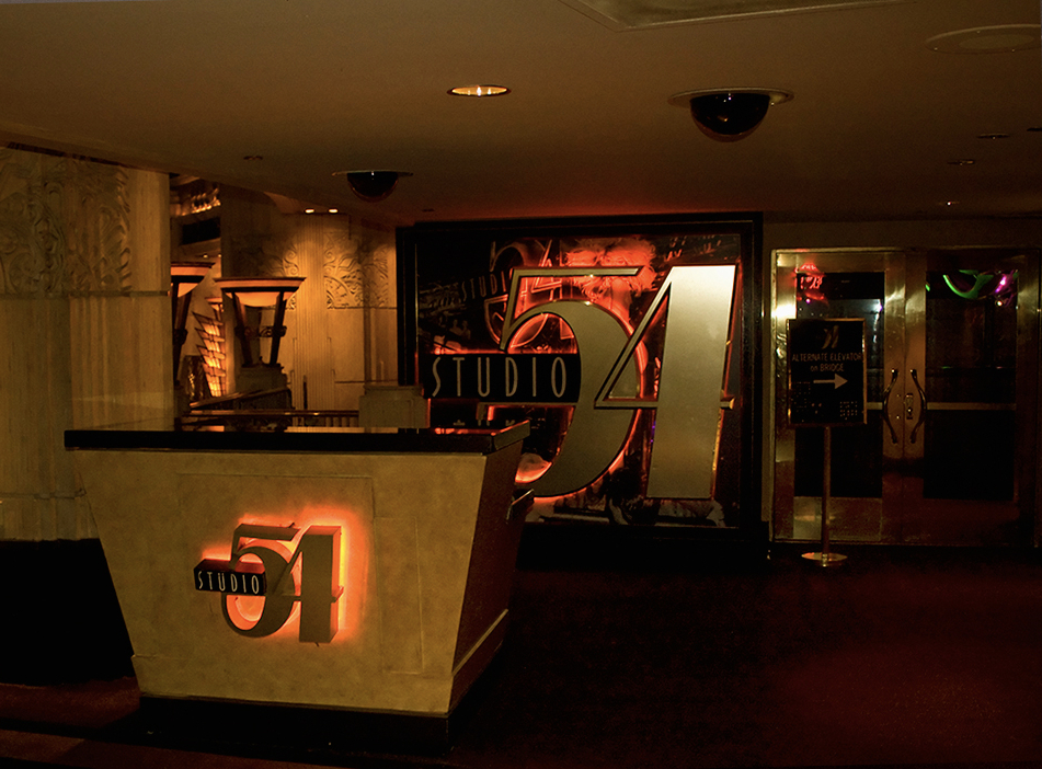 The Studio 54 nightclub at the MGM Grand hotel and casino in April 2008.